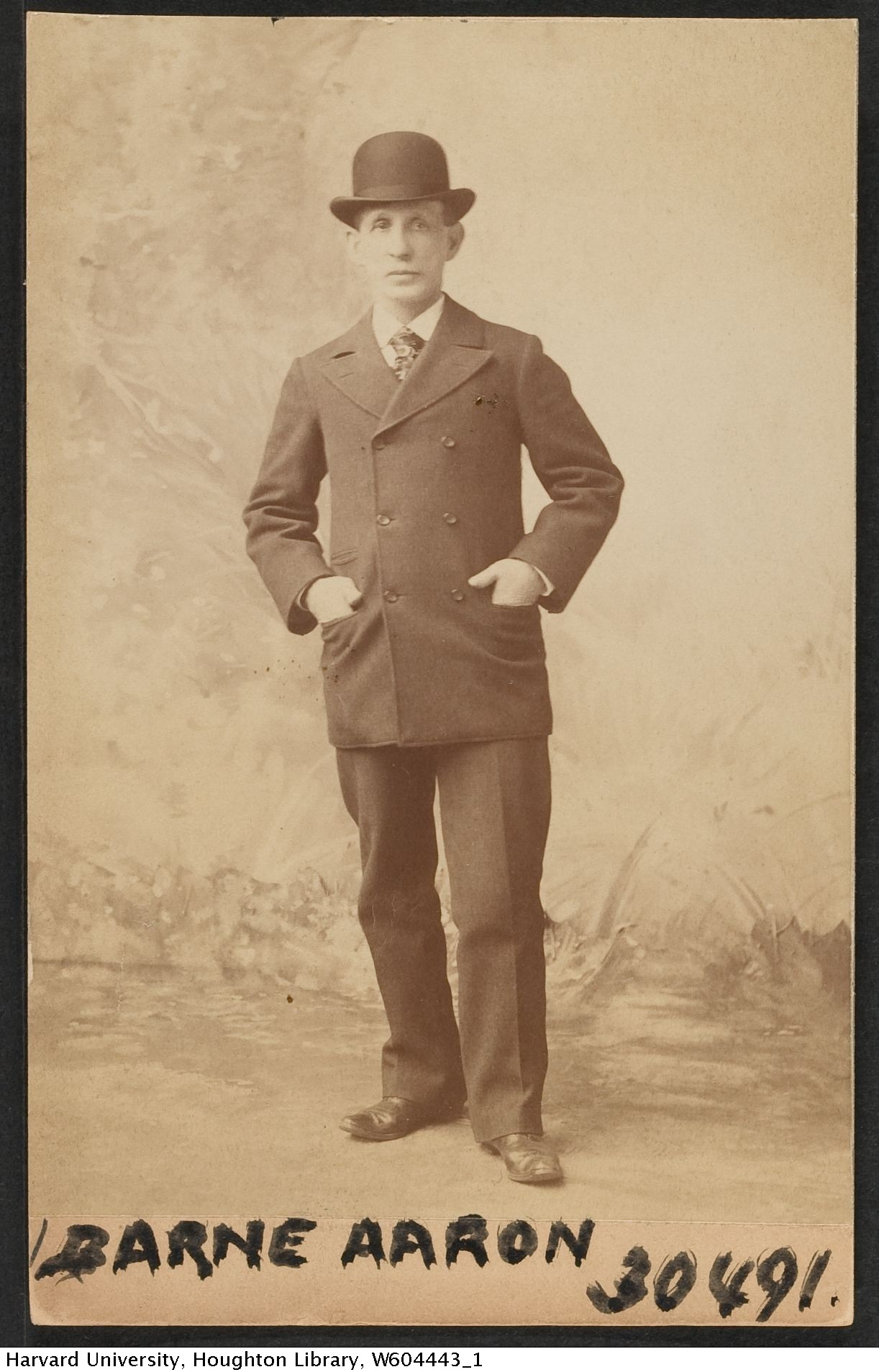 Cabinet card image of English bare knuckle boxer "Young" Barney Aaron (1836-1907). TCS 1.1, Harvard Theatre Collection, Harvard University